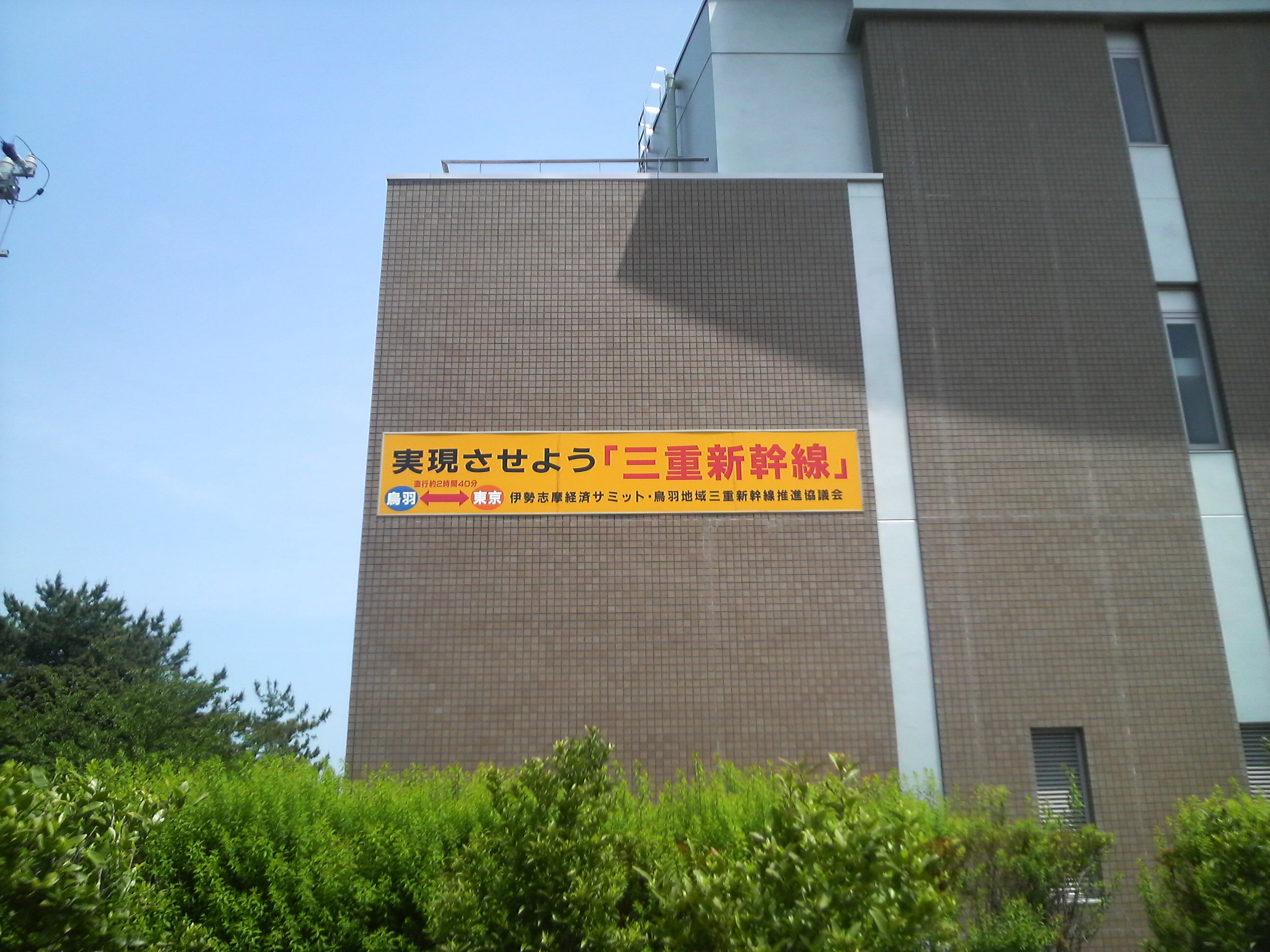 Building of Toba Chamber of Commerce and Industry in Toba city, Mie prefecture, Japan.